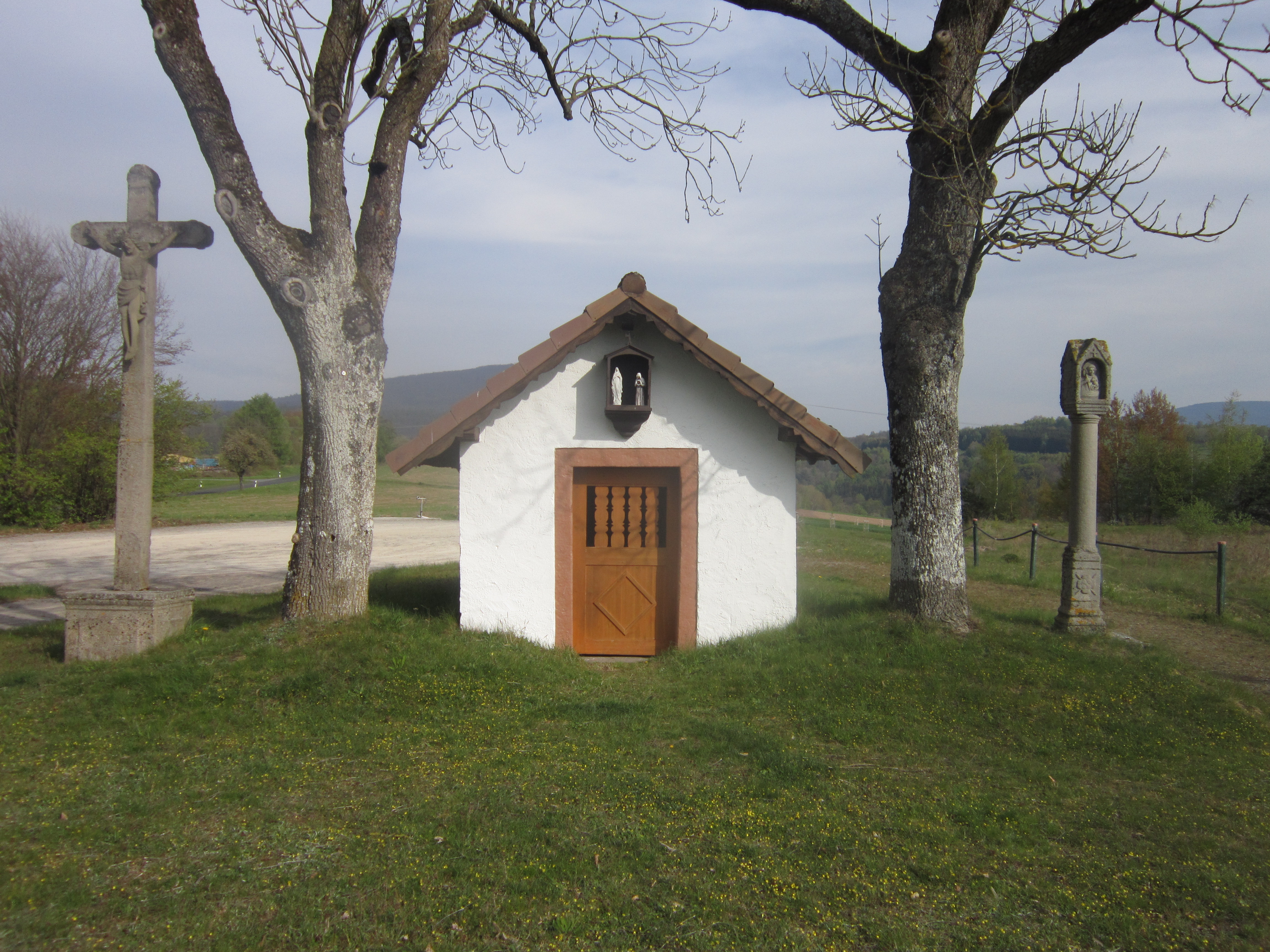 Marienkapelle in Gefäll, a quarter of the German town of Burkardroth in Lower Franconia (Bavaria).